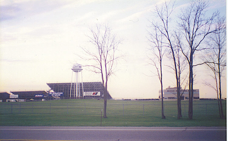 The grandstands for Michigan International Speedway in Michigan.